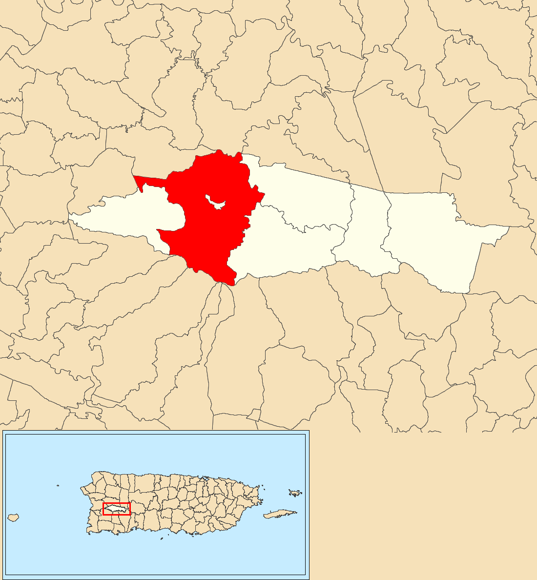 Maricao Afuera, Maricao, Puerto Rico locator map